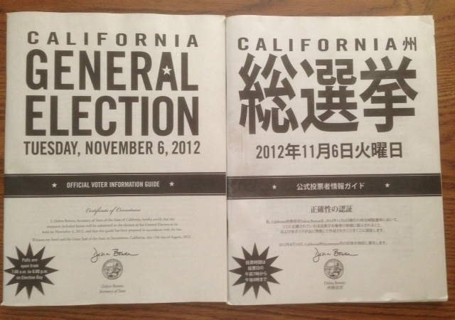 General Election Official Guide for 2012 Election for both English and Japanese